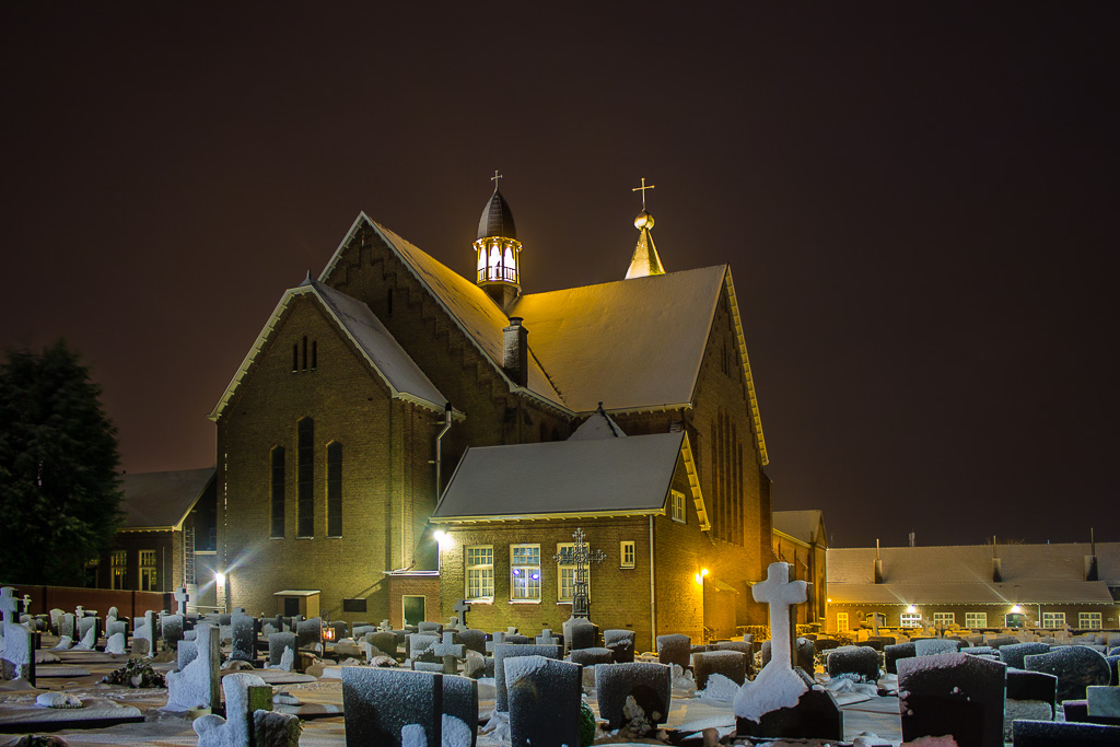 Baarle-Nassau, Nieuwstraat 2